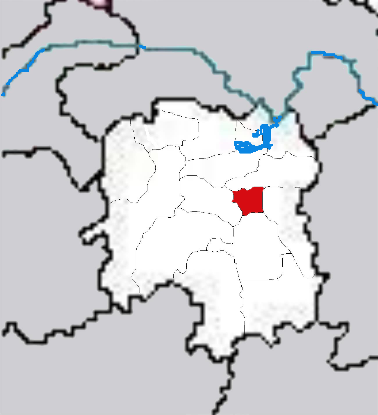 Maps of Hunana Province of China